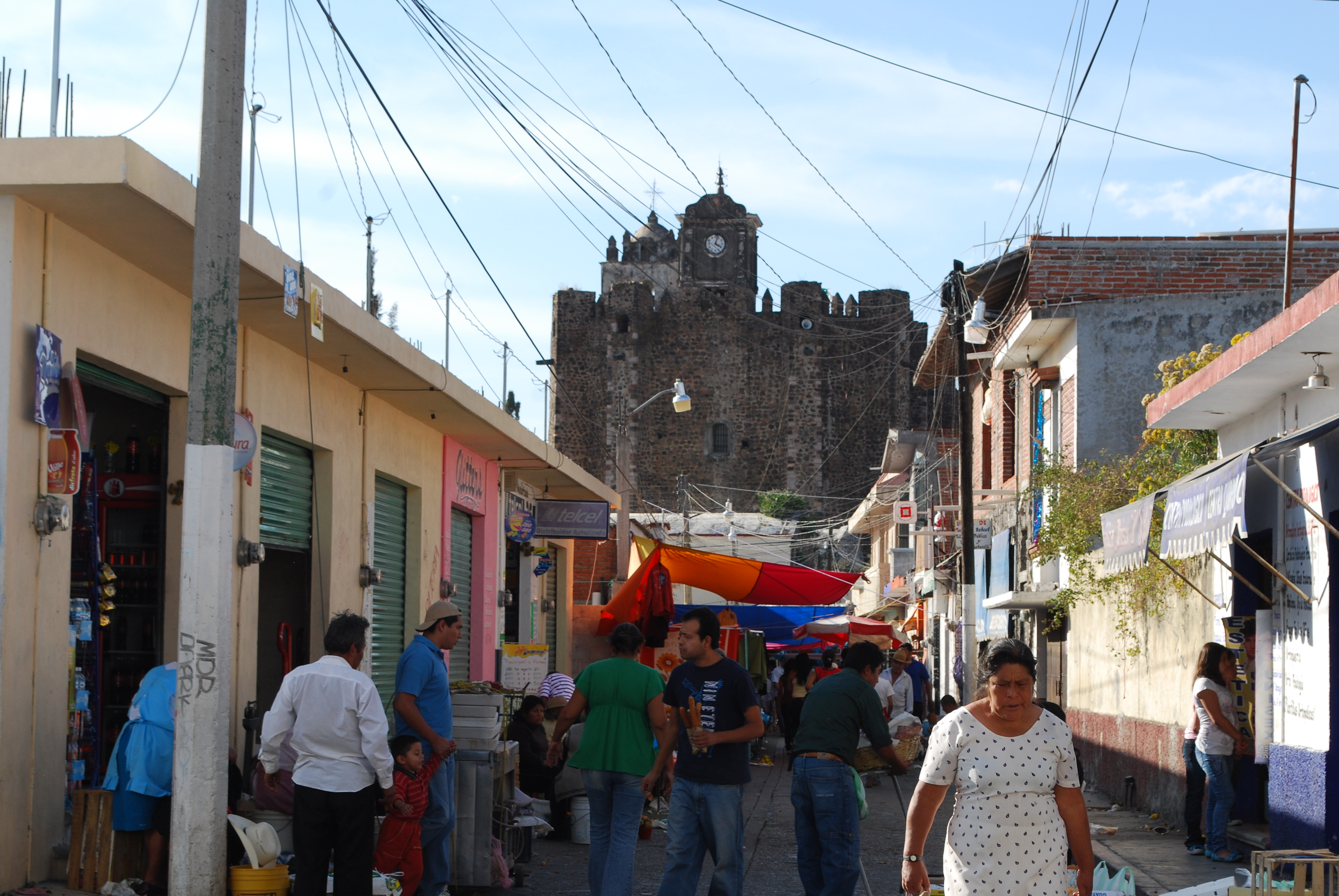 Looking along Nava Street towards the ex monastery of San Juan Bautista in Yecapixtla, Morelos, Mexico